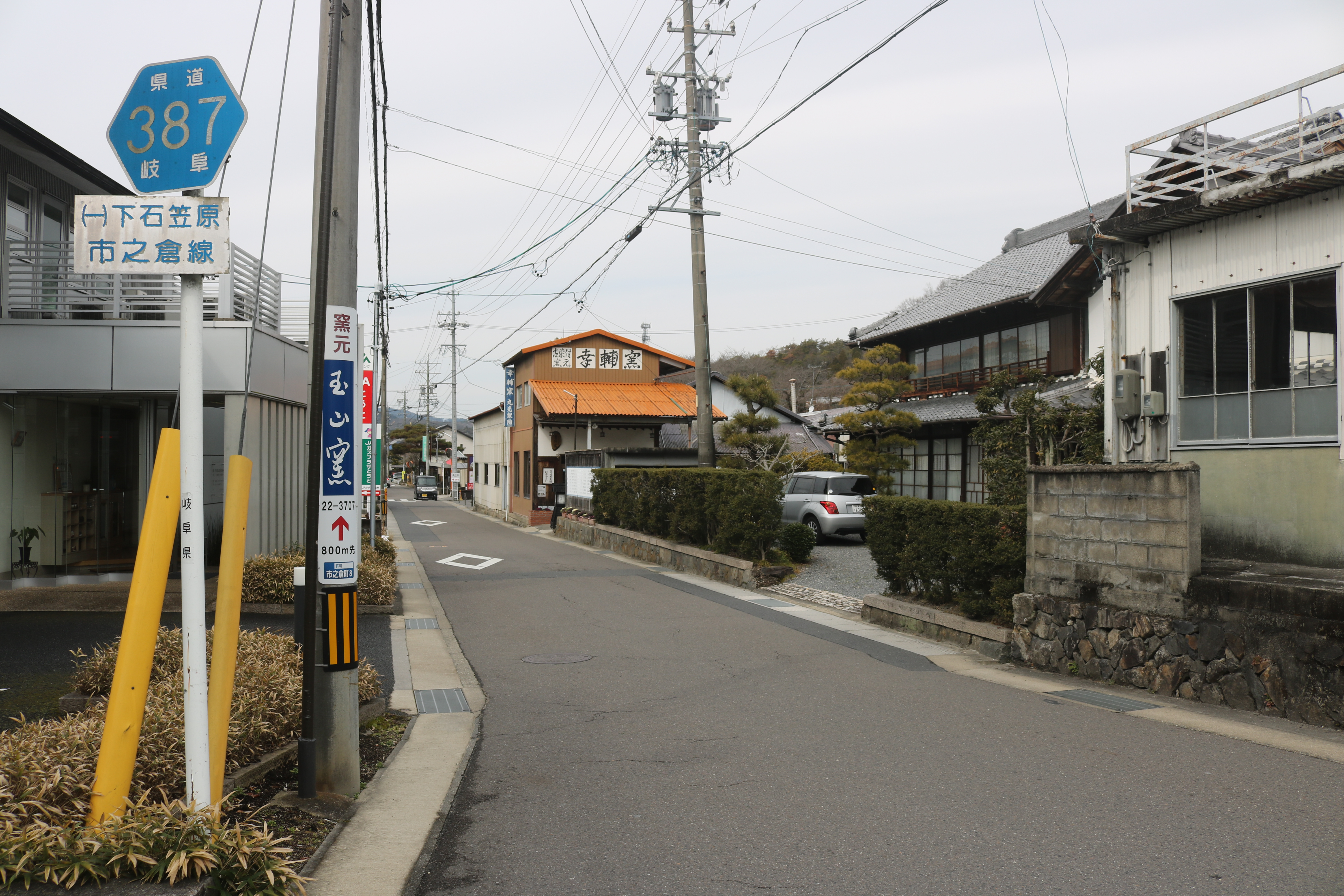 Gifu Prefectural Road Route 387 in Ichinokuracho, Tajimi, Gifu Prefecture, Japan.